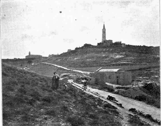 Bethphage 1906, Jerusalem, the small Franciscan Church of Bethphage in the foreground, up the hill the Russian Church of the Ascension, in the background - Church of Pater Noster